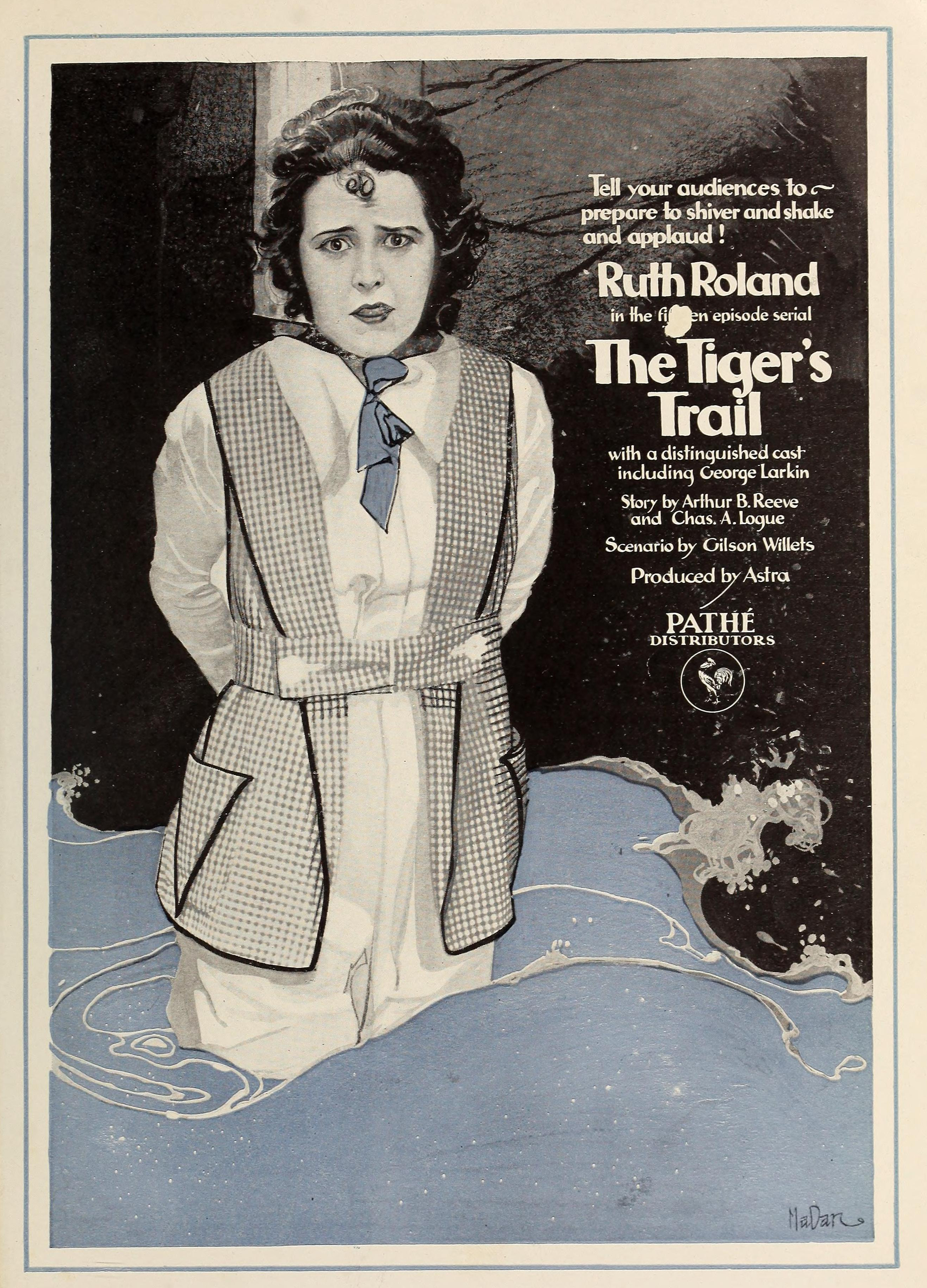 Advertisement in Moving Picture World, May 1919 for the film serial The Tiger's Trail (1919).